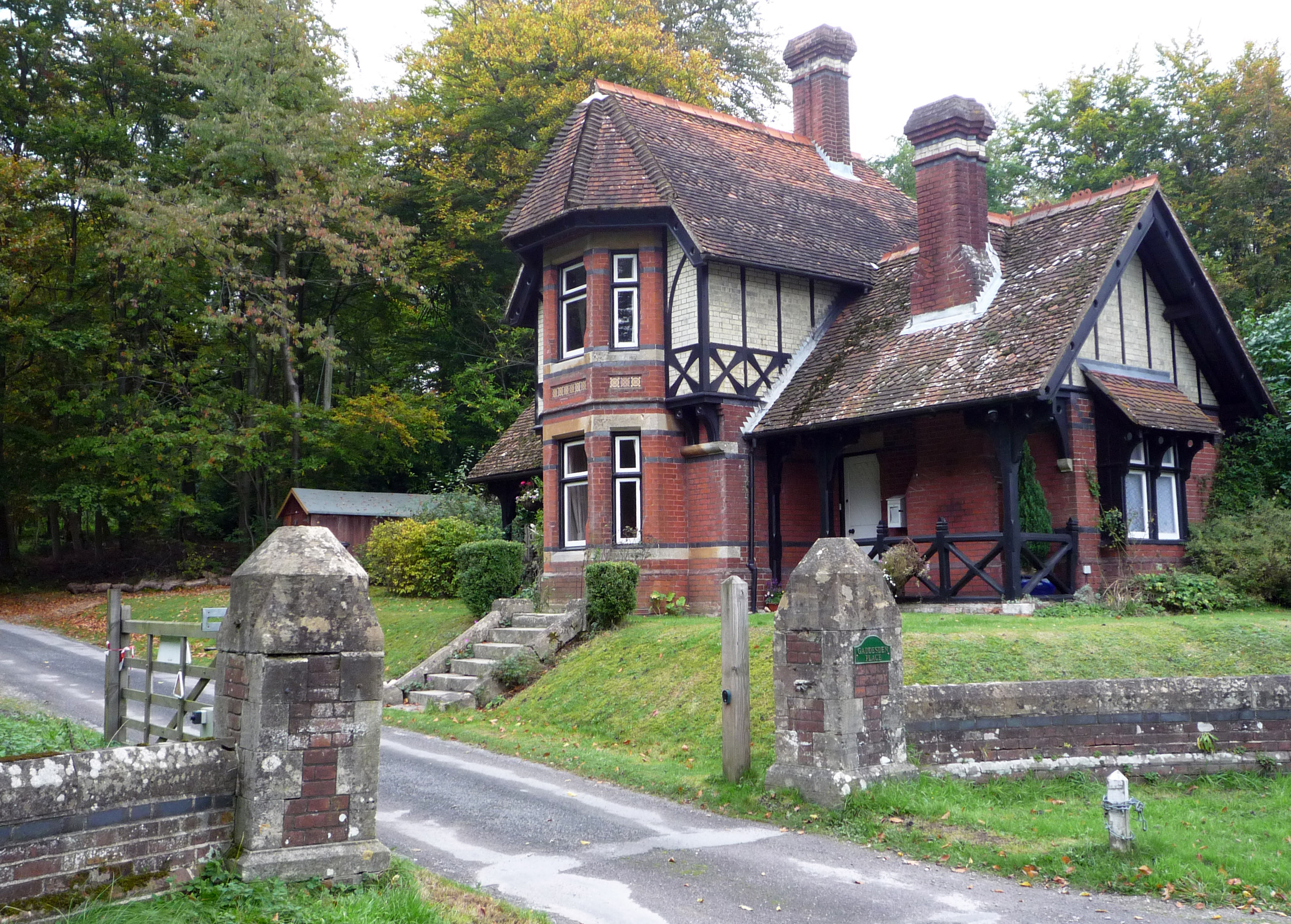 Gaddesden Place Gatehouse. The Mock Tudor style of the Gatehouse seems ill-suited to classical appearance of the main house.